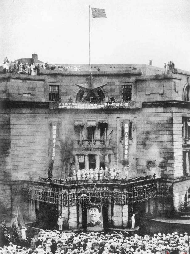 The flag of the People's Republic of China raised in The Building of Shanghai Municipal Council on October 2, 1949. It is the first flag of the PRC raised in Shanghai. 中文（中国大陆）: 1949年10月2日，旧上海市人民政府大楼（工部局大楼）升起中华人民共和国国旗，这是上海升起的第一面五星红旗。